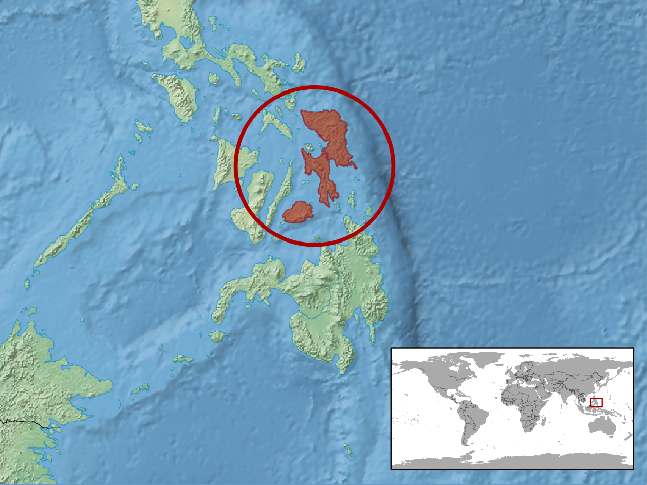 geographic distribution of Draco reticulatus (Native: Philippines)